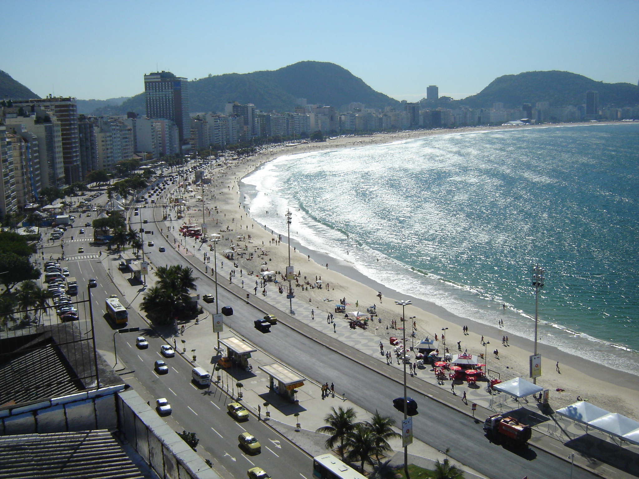 Copacabana Beach seen from the top of the Hotel Orla.